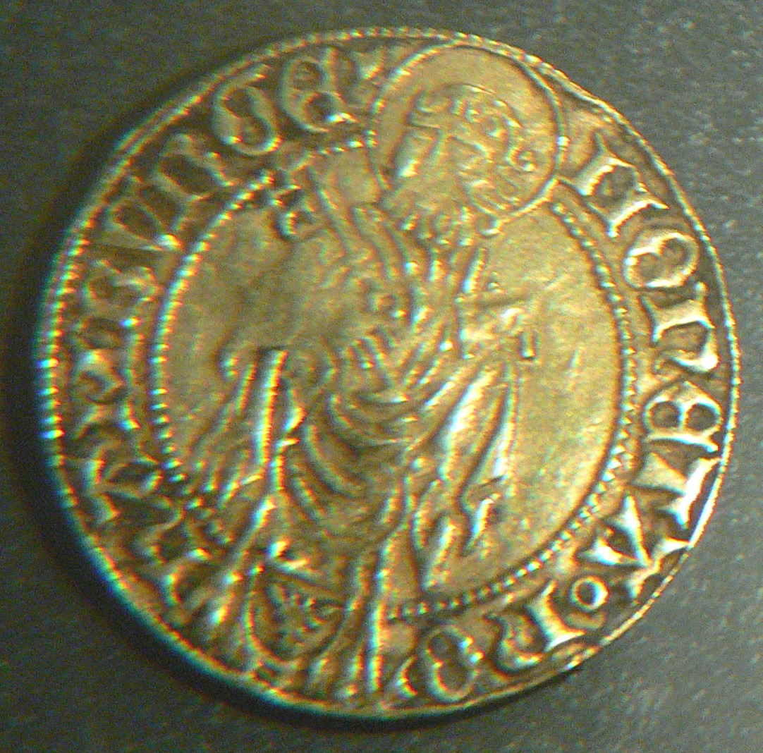 Golden apple guilder, Hamburg, 1438 or 1439, front side with Saint Peter, inscription MONET NO - HAMBVRGE. Fornsalen Museum, Visby ( Gotland ).